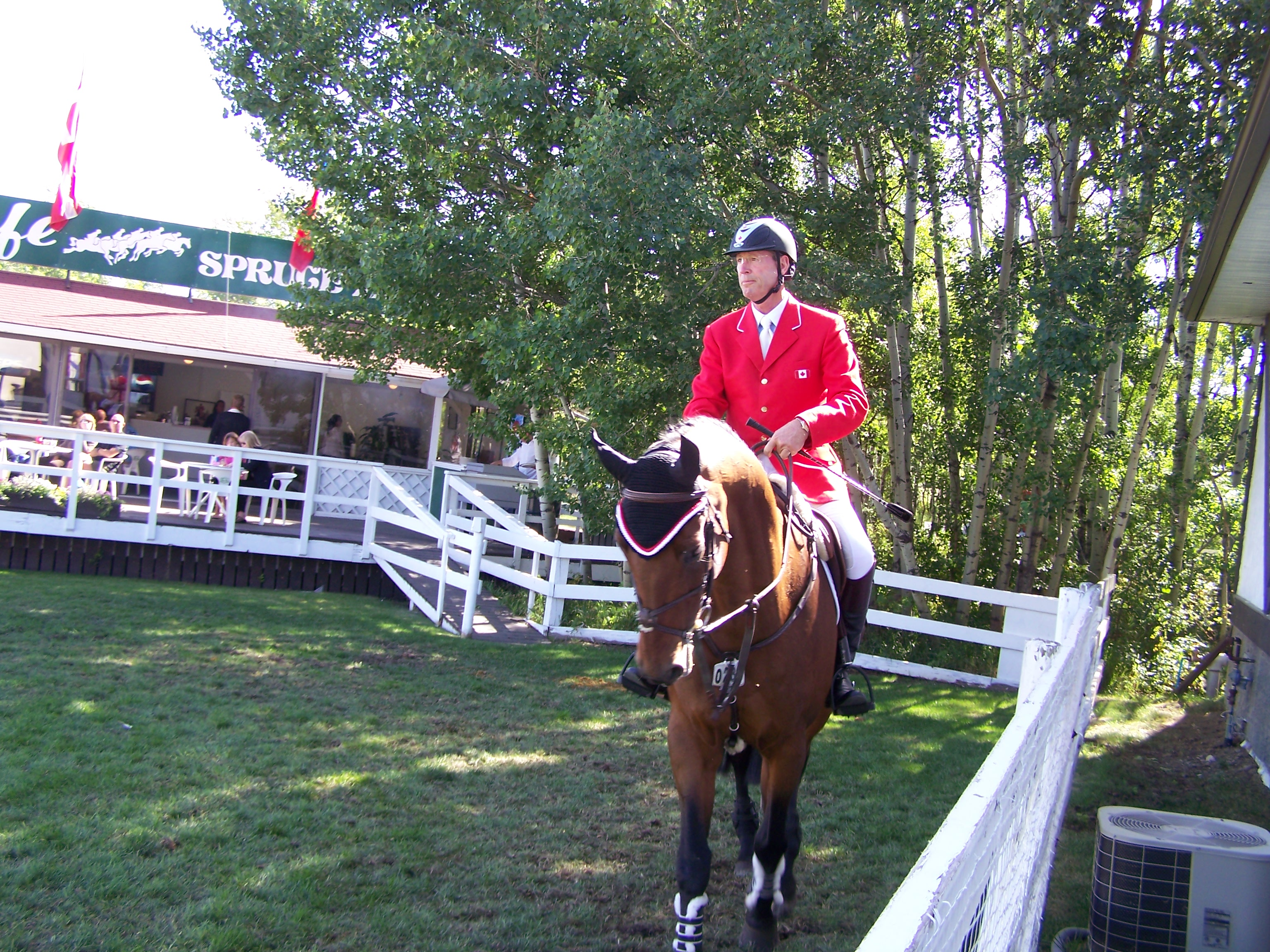 Ian Millar at Spruce Meadows at the CSIO Spruce Meadows 'Masters' Tournament. This was taken outside the field of competition on the last day of the tournament.